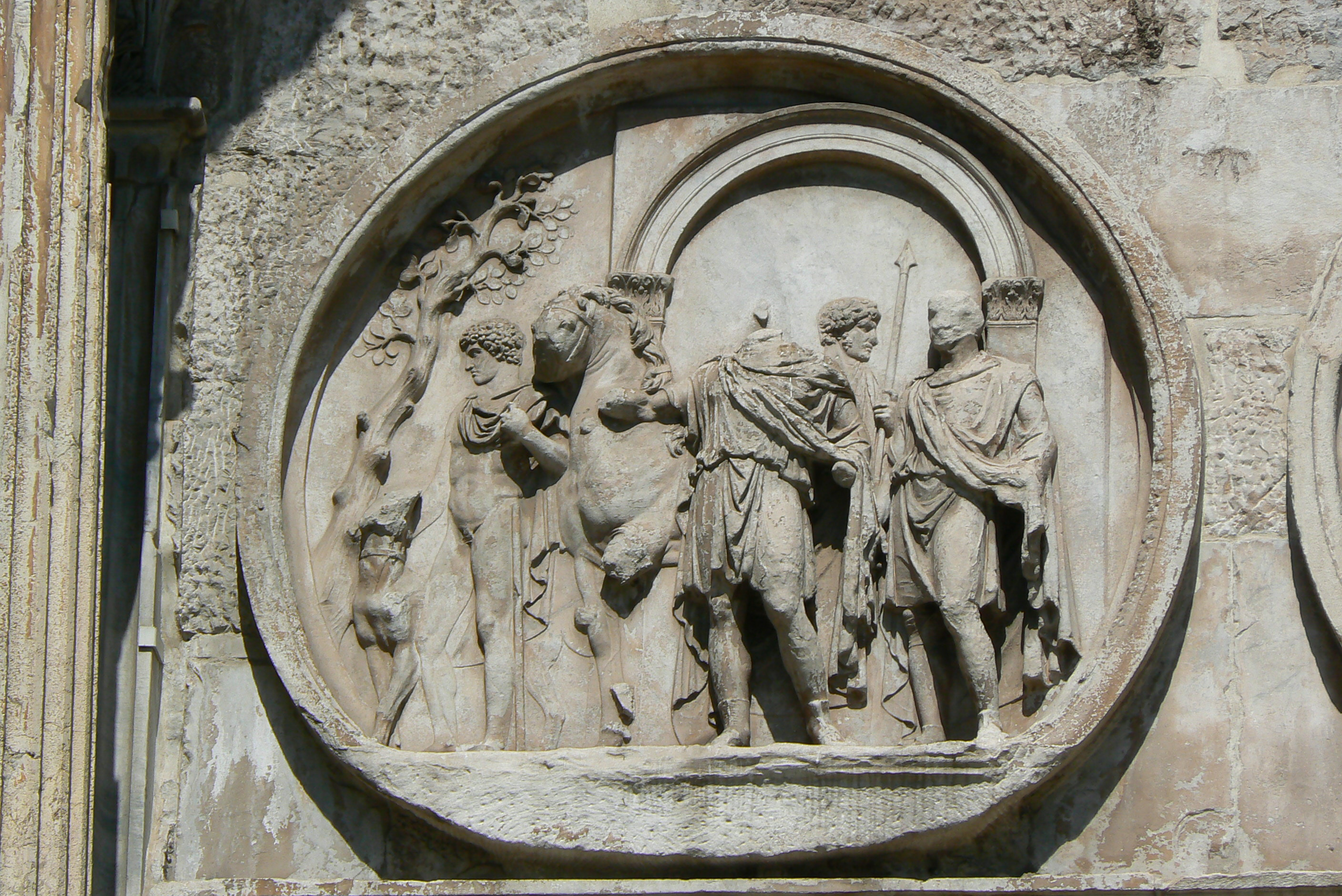 Rome, Arch of Constantine, detail